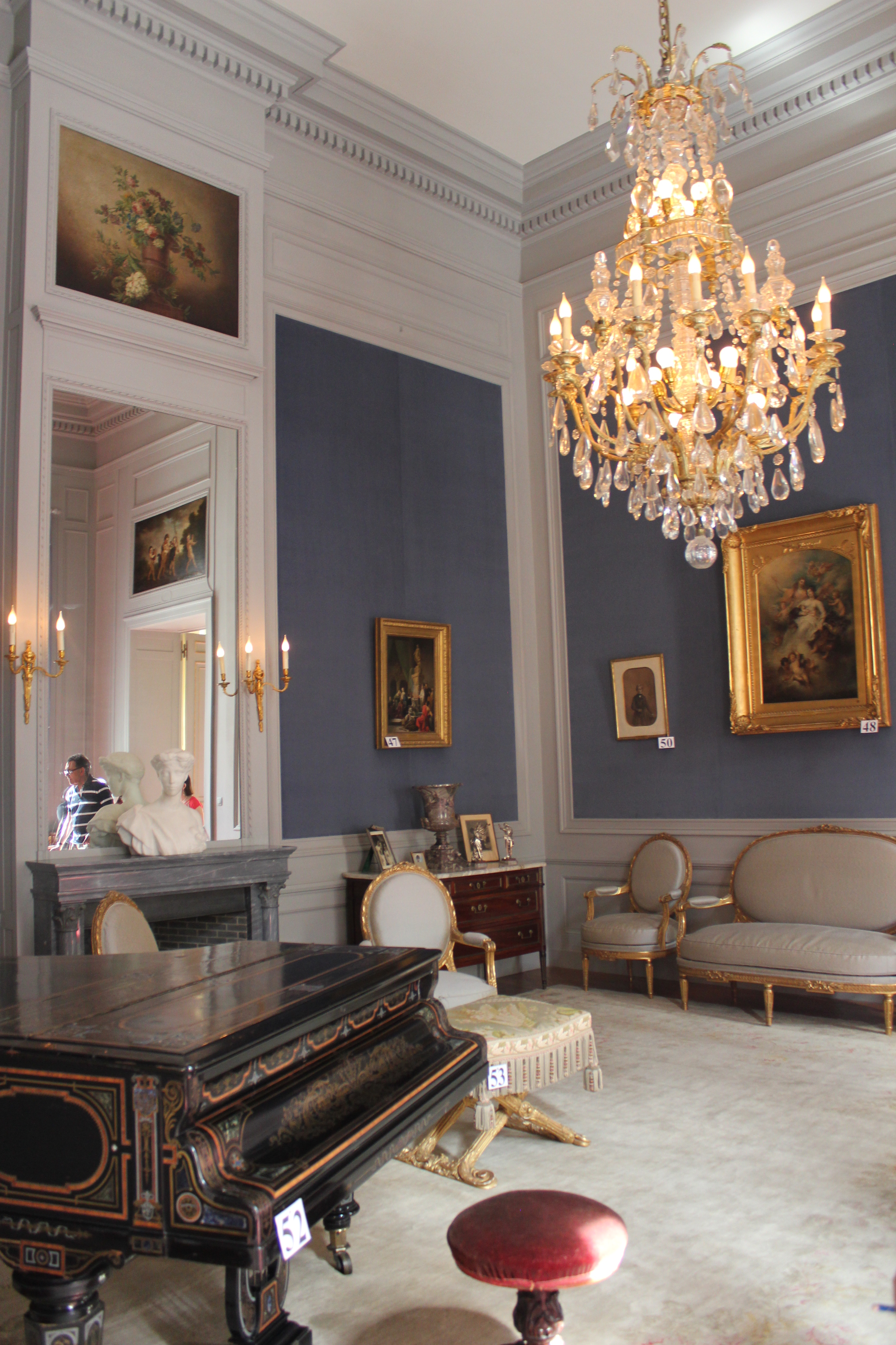 The Royal Palace of Brussels (Dutch: Koninklijk Paleis van Brussel